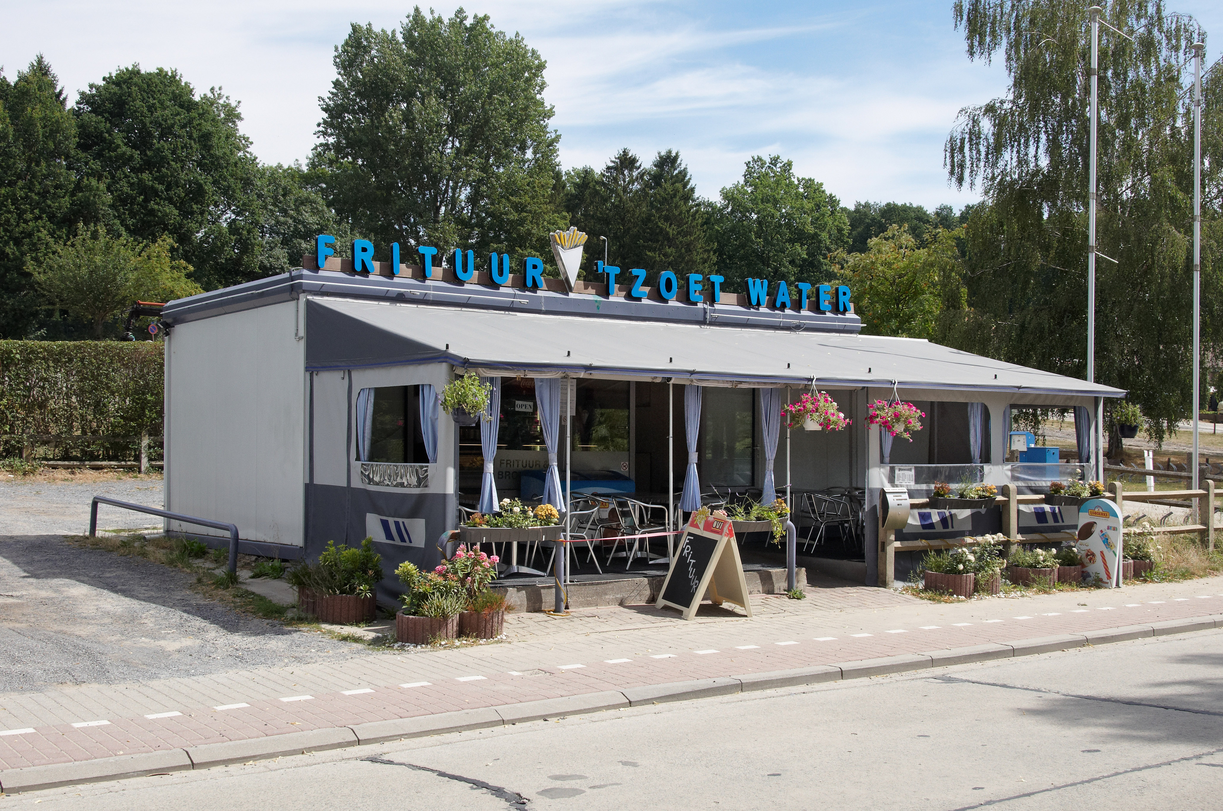 A friterie in Oud-Heverlee, Belgium